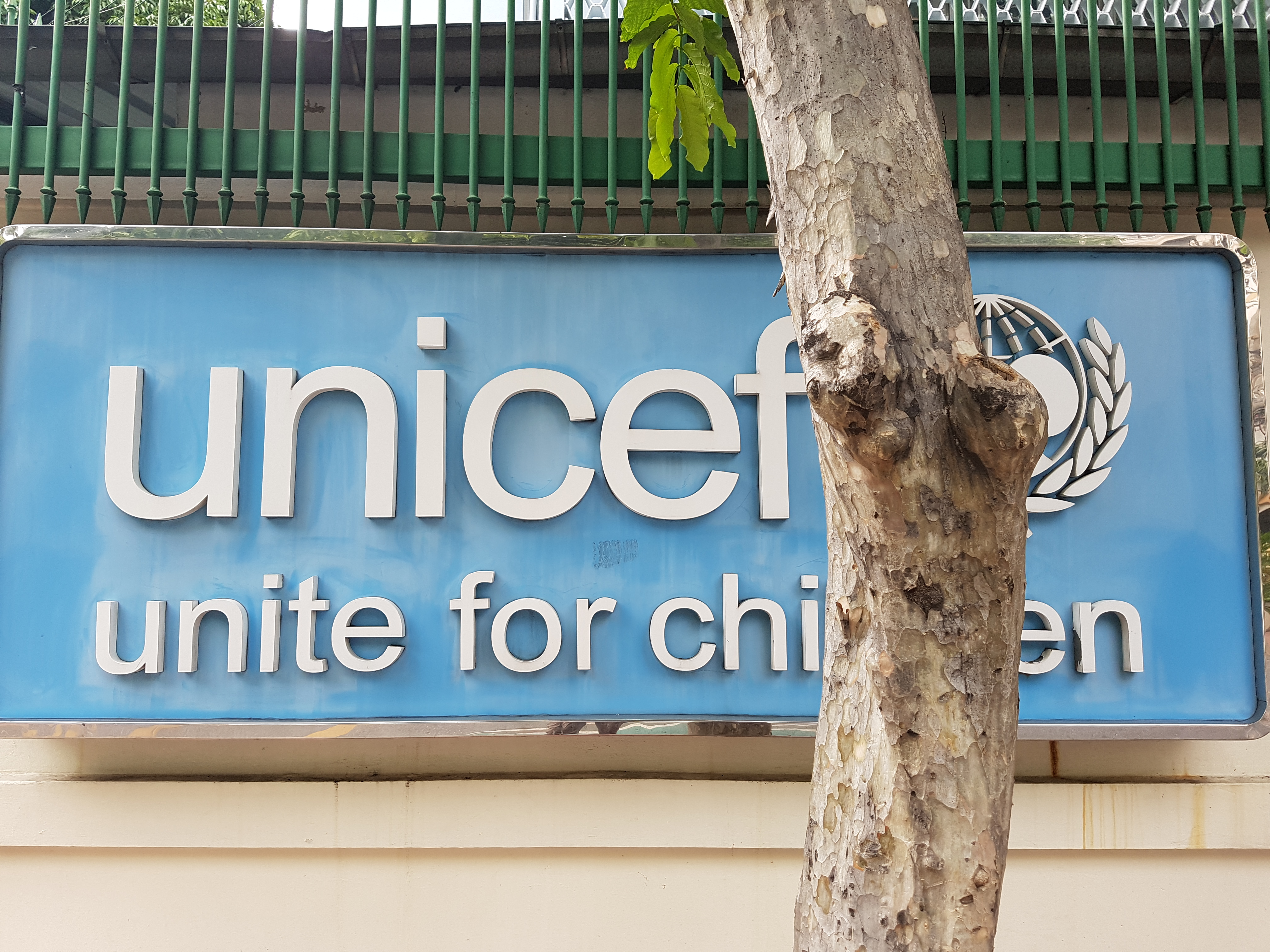 UNICEF Office in Bangkok, Thailand.